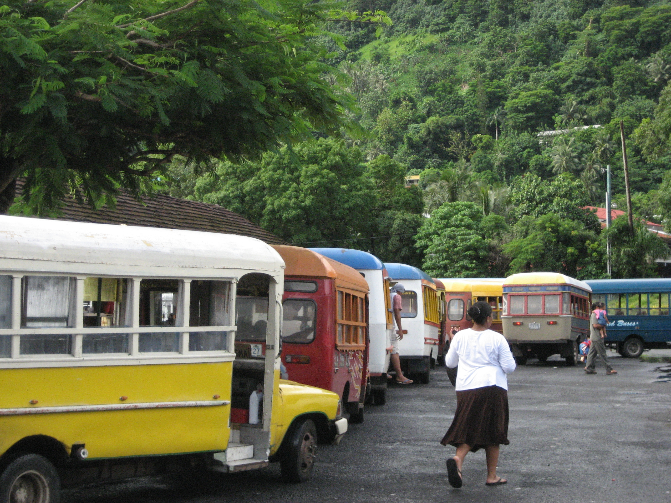 The 2007 Annual Pago Pago Championship Busfest